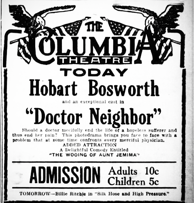 Newspaper Ad for Doctor Neighbor